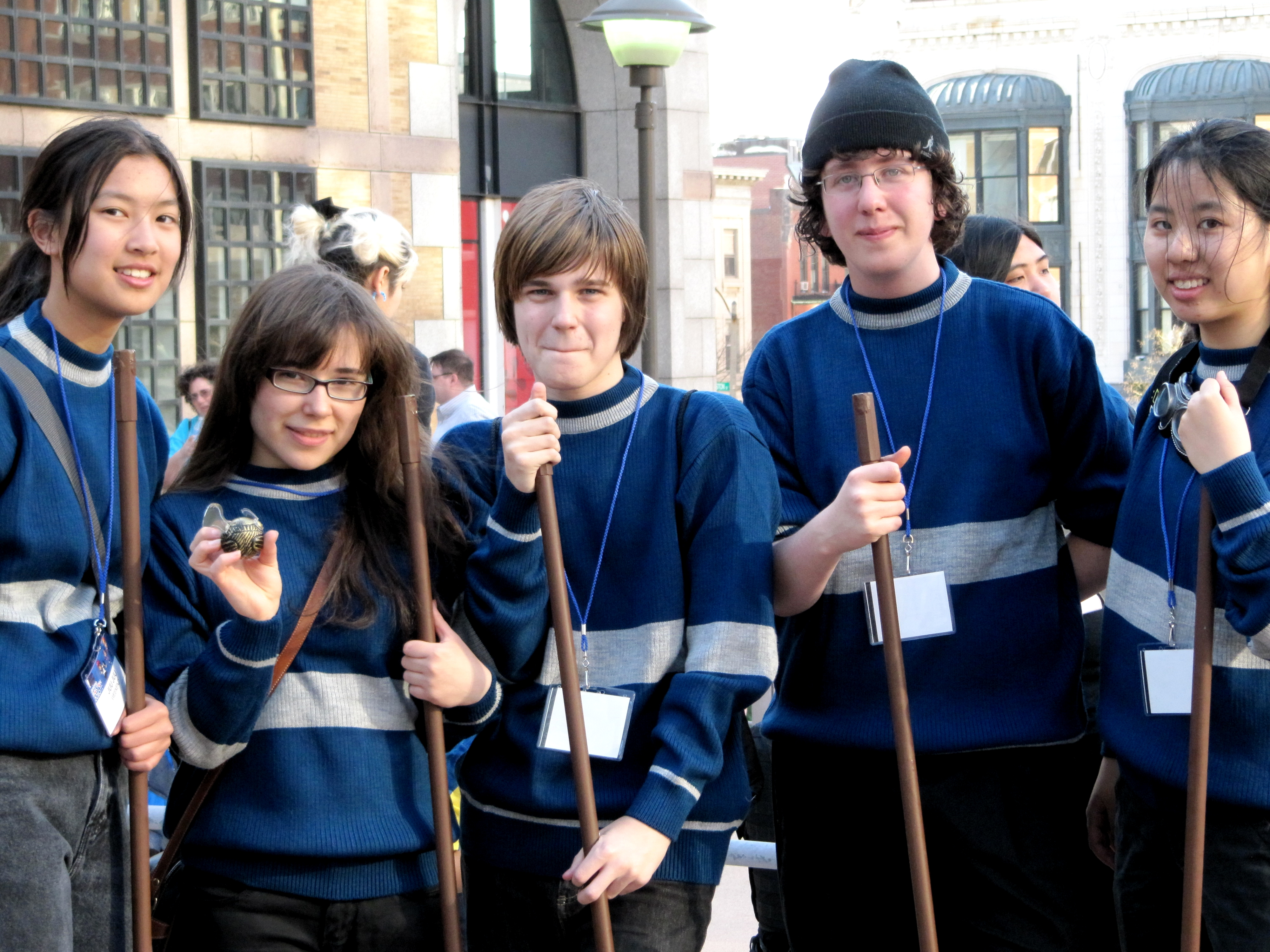 Dressed as Hogwarts students - Anime Boston 2010 cosplay at Hynes Convention Center. April 2010 photo by John Stephen Dwyer